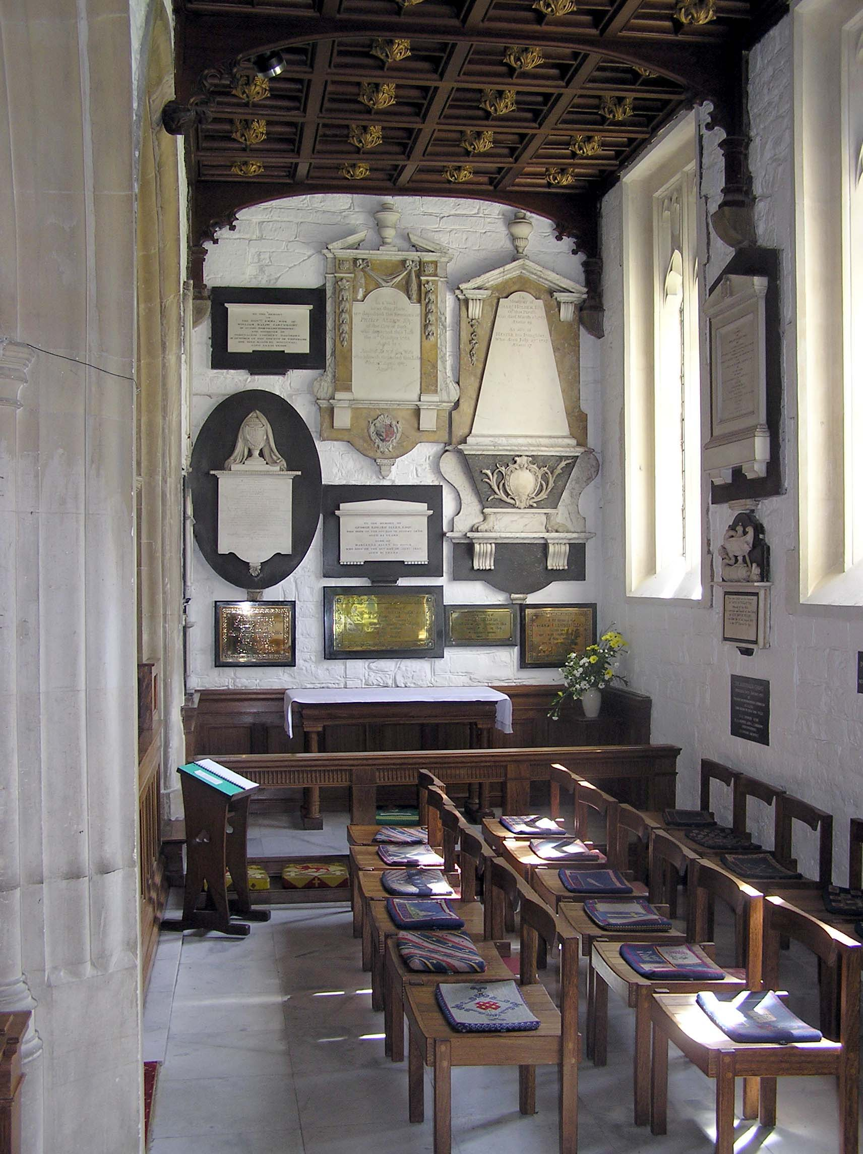 The Australia Chapel in St Nicholas Church, Bathampton, near Bath, England. The memorial to the first governor of New South Wales (Arthur Phillip) is on the right hand wall, immediately above the dark square plaque. Photographed by Adrian Pingstone on 31st May 2006 and placed in the public domain.